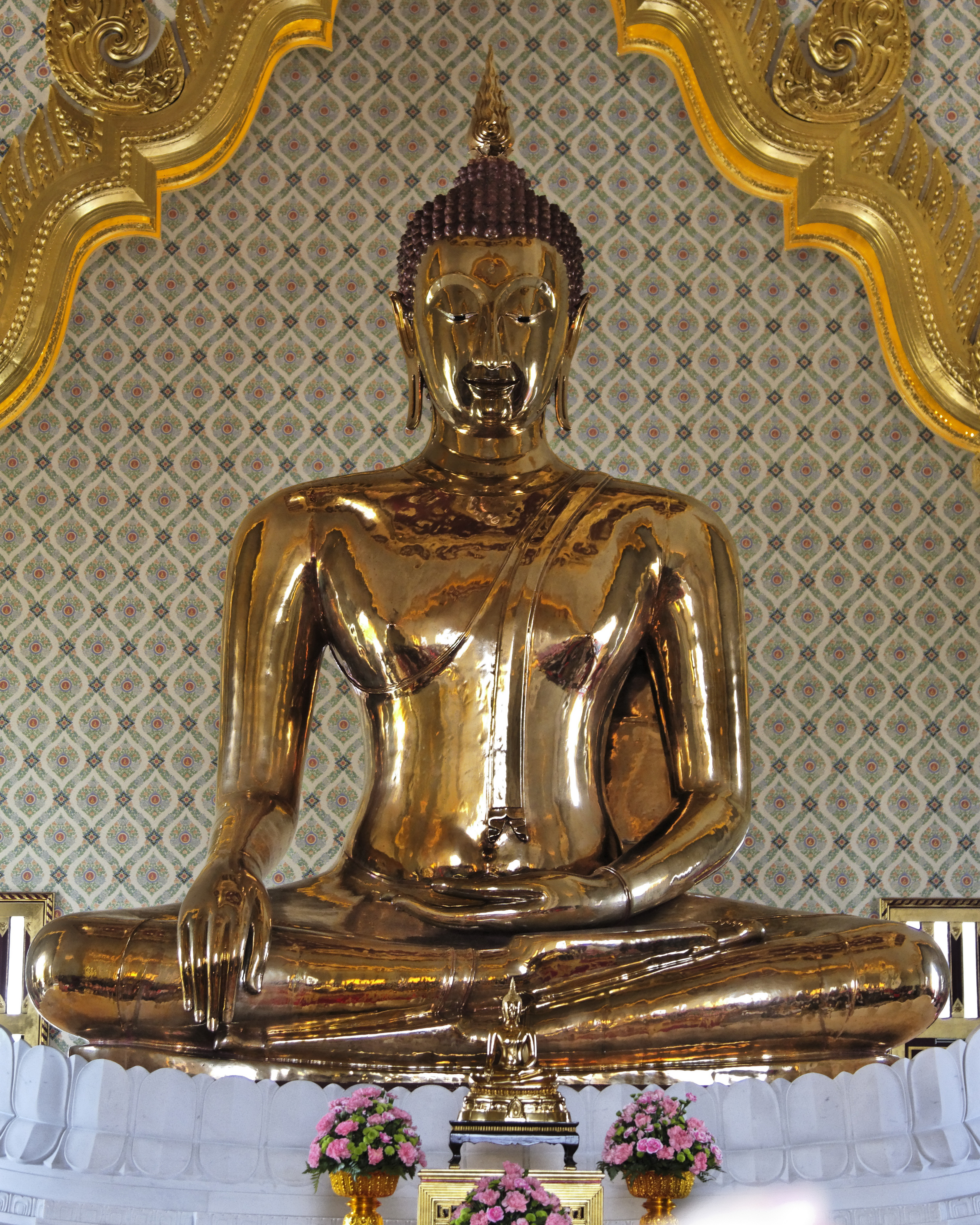 Wat Trimitr, Bangkok, Thailand